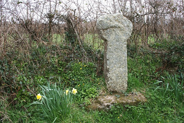 Roadside Celtic Cross